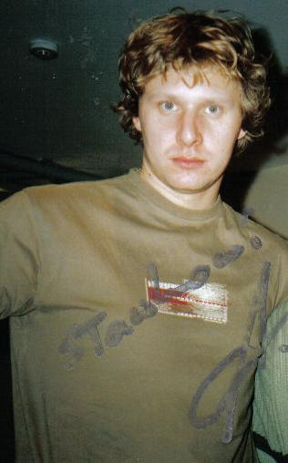 Actor Andrzej Nejman